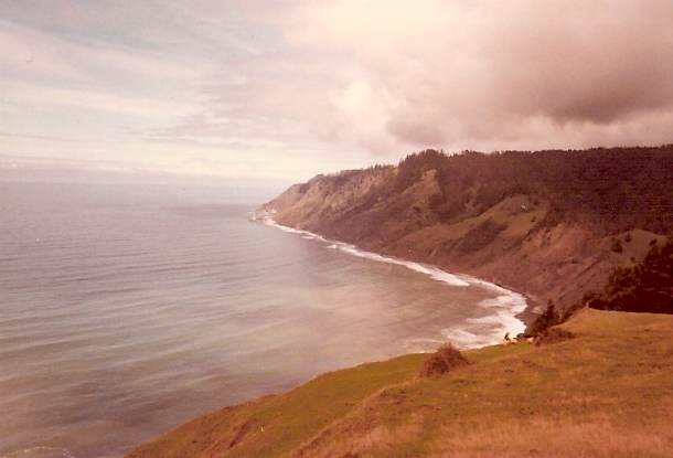 Lost Coast looking north from the south side of Usal Creek. The mouth of Usal Creek and the former site of the company town of Usal are concealed behind the hill in the foreground.